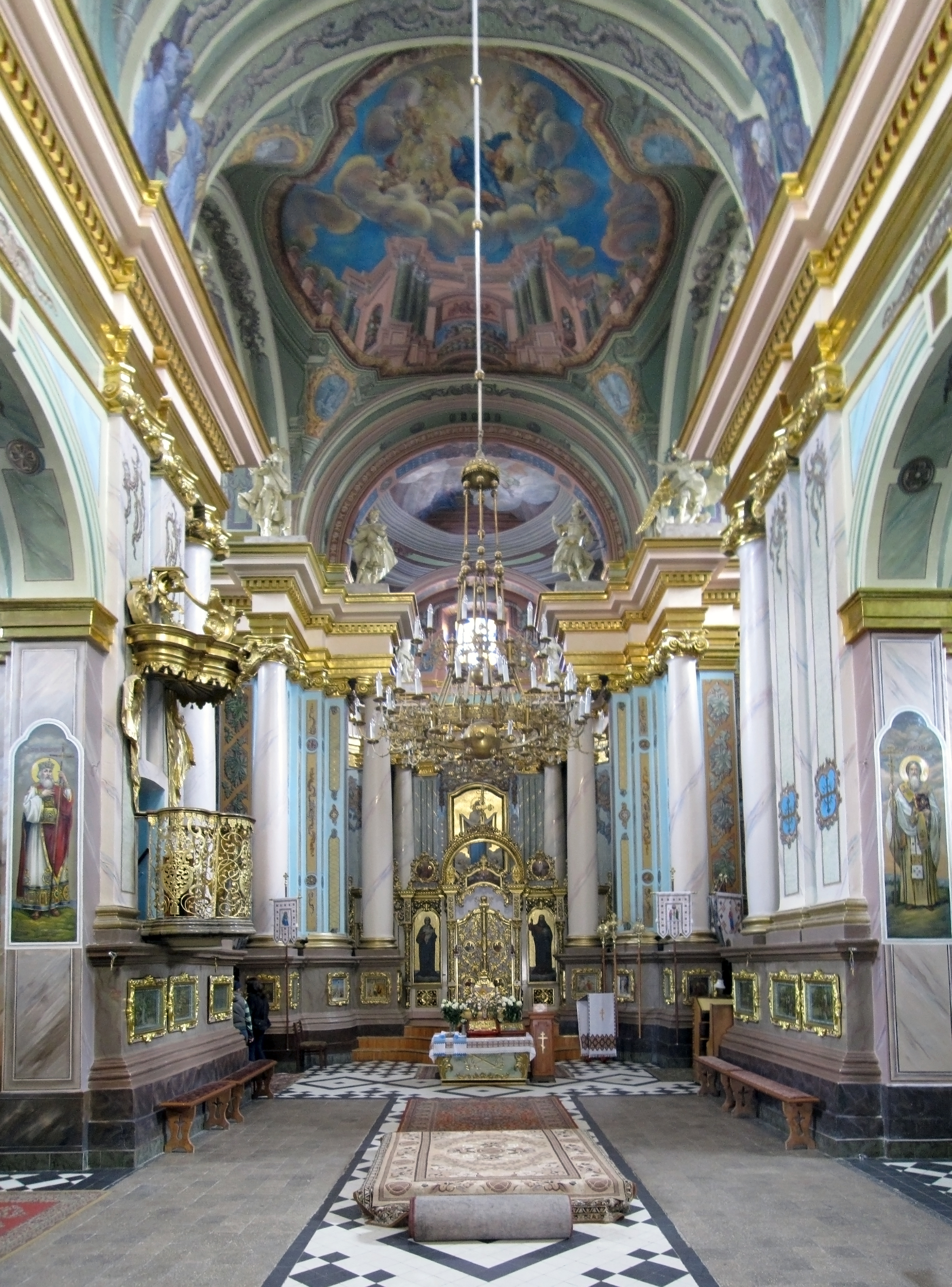 Interior of the Armenian Church in Stanisławów.